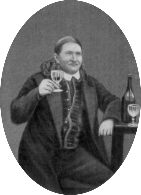 Friedlieb Ferdinand Runge portrait circa 1860 holding glass